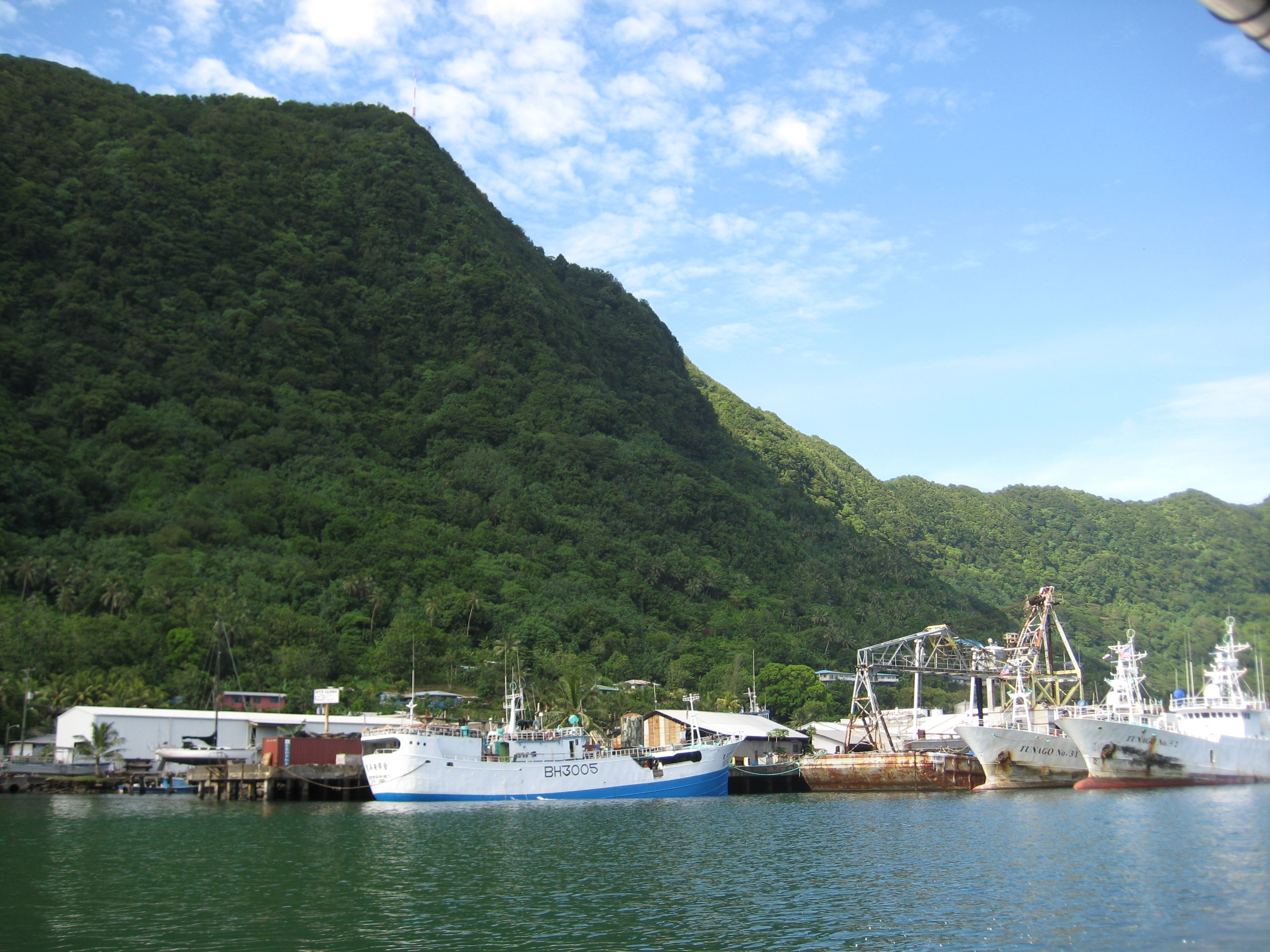 Mountains surrounding Pago Pago Harbor. Tuna boats in port. American Samoa.